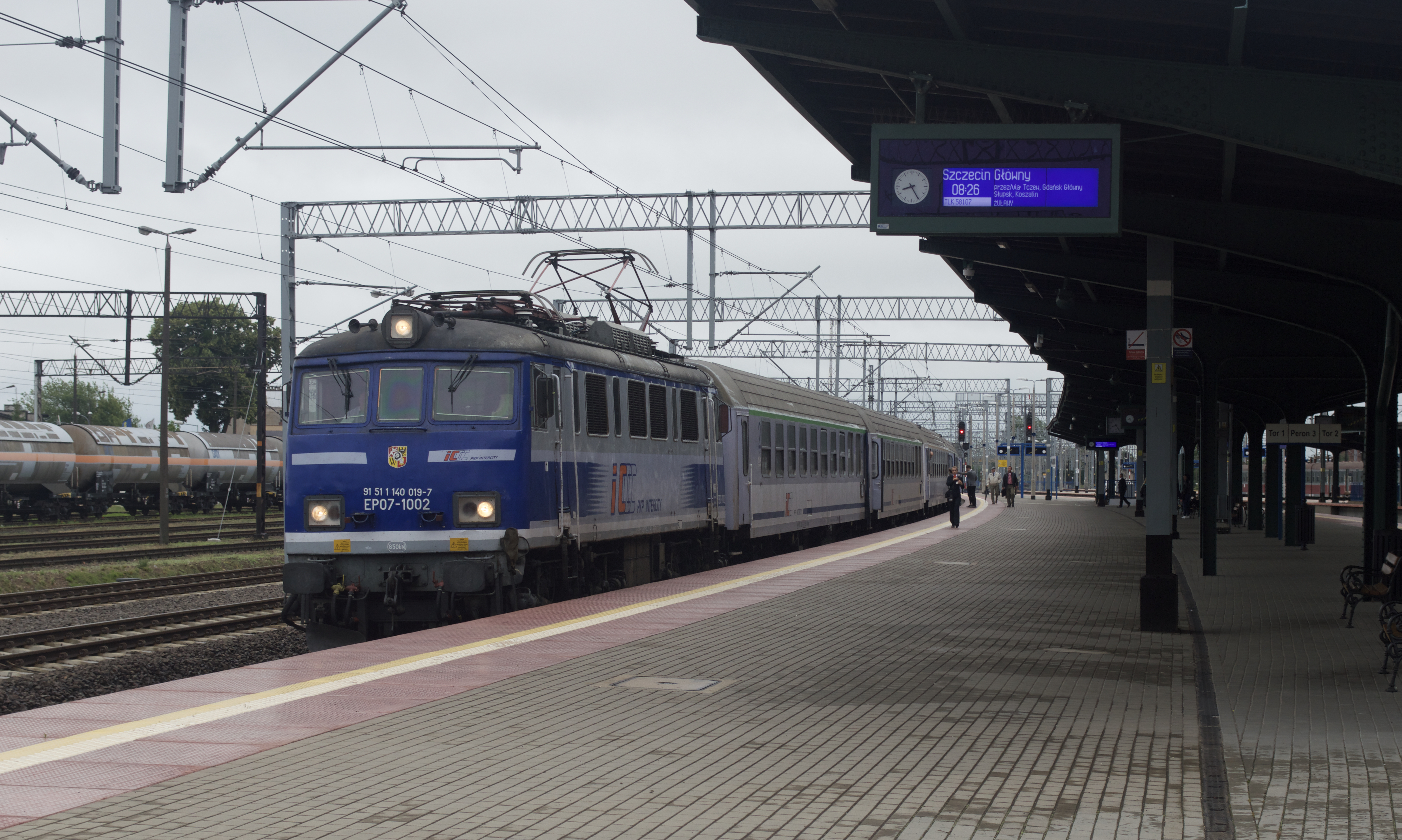 PKP InterCity TLK train no. TLK58106 "Żuławy", 06:41 Olsztyn Główny to Szczecin Główny with EP07-1002 powering is ready for a right time departure at Malbork on 30 June 2017.